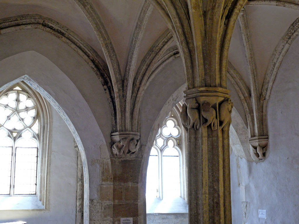 Goat Church, chapter house